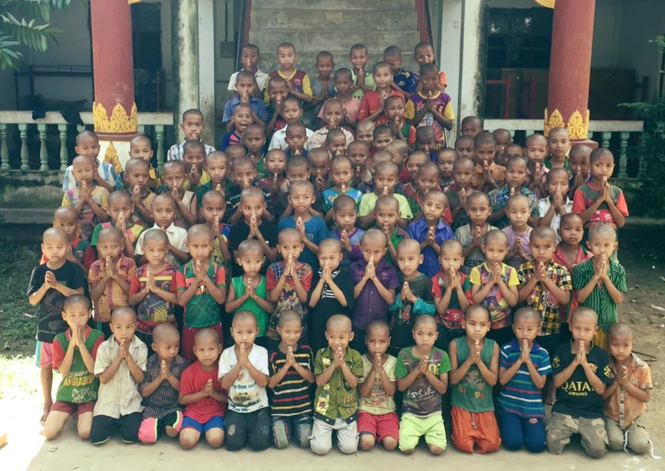 Newly 2nd grade student of Be Happy Learning Center in 2016